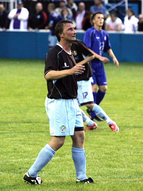 Bury FC assistant manager Chris Brass during the Ramsbottom United vs. Bury friendly game at The Riverside, home of Ramsbottom United FC. Tuesday 4th August 2009